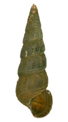 Photo of an apertural view of a shell of Tylomelania wallacei.